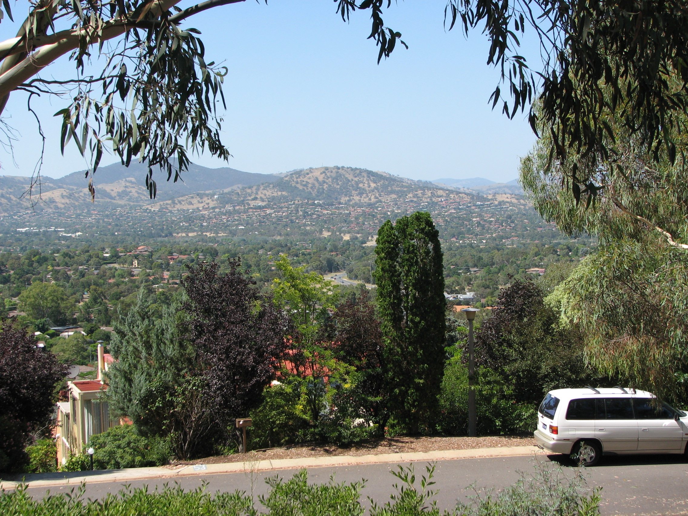 View across Wanniassa to the Brindabella Mountain Range